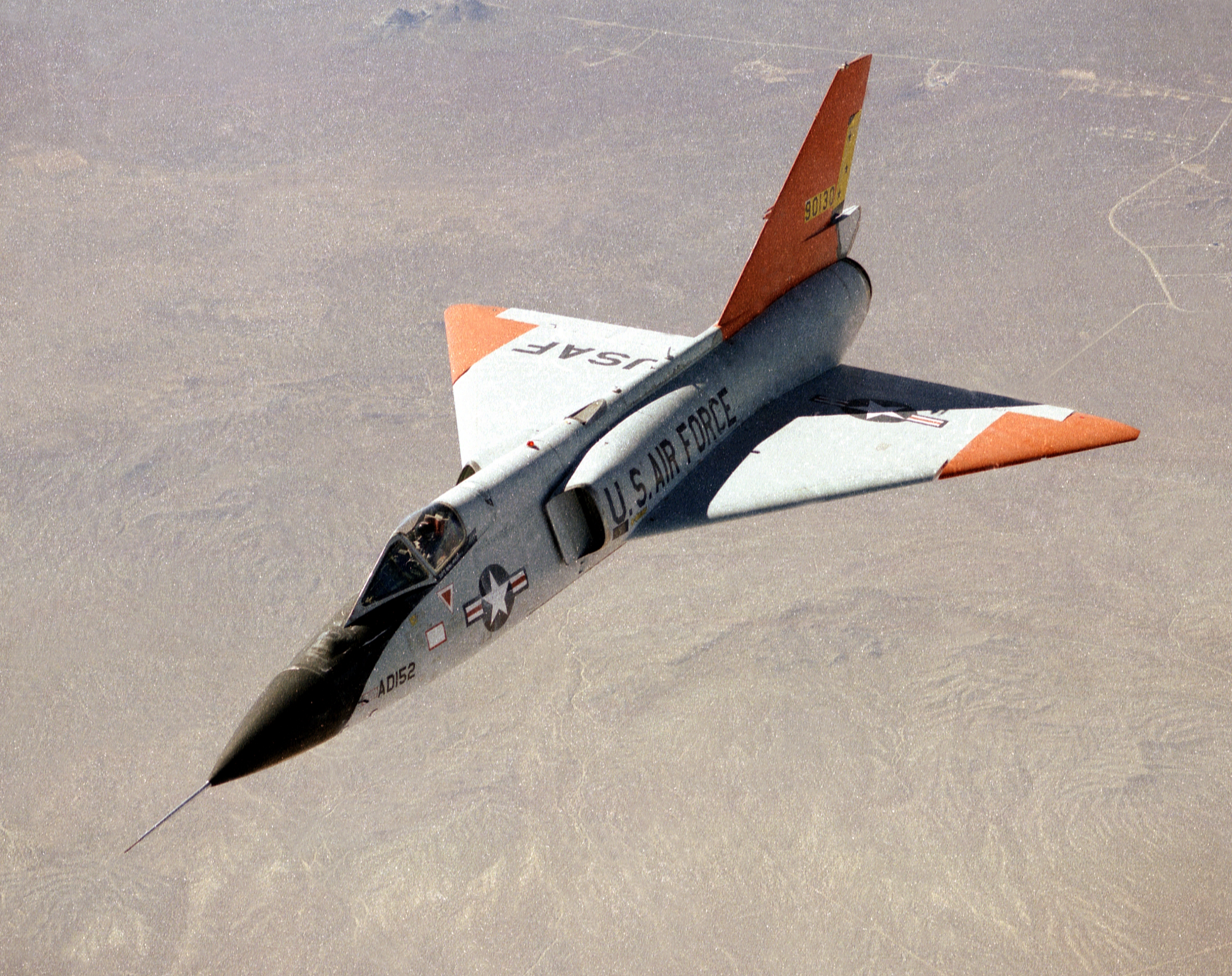 Eclipse program QF-106 aircraft in flight This photo shows one of the QF-106s used in the Eclipse project in flight. Project Description: In 1997 and 1998, the Dryden Flight Research Center at Edwards, California, supported and hosted a Kelly Space & Technology, Inc. project called Eclipse, which sought to demonstrate the feasibility of a reusable tow-launch vehicle concept. The project goal was to successfully tow, inflight, a modified QF-106 delta-wing aircraft with an Air Force C-141A transport aircraft. This would demonstrate the possibility of towing and launching an actual launch vehicle from behind a tow plane. Dryden was the responsible test organization and had flight safety responsibility for the Eclipse project. Dryden provided engineering, instrumentation, simulation, modification, maintenance, range support, and research pilots for the test program. The Air Force Flight Test Center (AFFTC), Edwards, California, supplied the C-141A transport aircraft and crew and configured the aircraft as needed for the tests. The AFFTC also provided the concept and detail design and analysis as well as hardware for the tow system and QF-106 modifications. Dryden performed the modifications to convert the QF-106 drone into the piloted EXD-01 (Eclipse eXperimental Demonstrator–01) experimental aircraft. Kelly Space & Technology hoped to use the results gleaned from the tow test in developing a series of low-cost, reusable launch vehicles. These tests demonstrated the validity of towing a delta-wing aircraft having high wing loading, validated the tow simulation model, and demonstrated various operational procedures, such as ground processing of in-flight maneuvers and emergency abort scenarios.